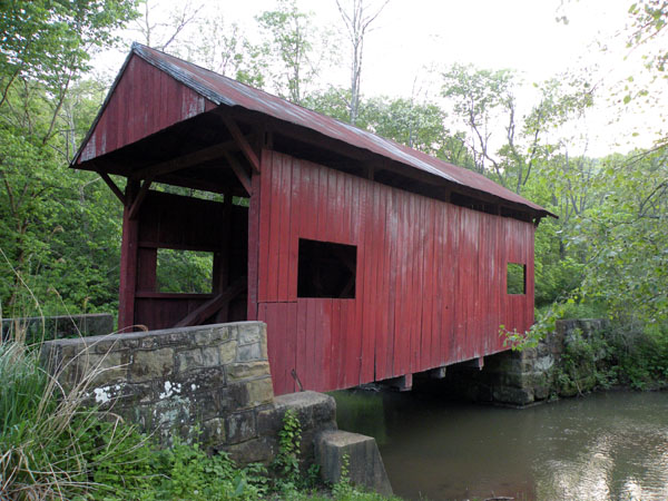 Picture of Ralston Freeman Covered Bridge over Aunt Clara's Fork of King's Creek at the end of Ralston Road in Hanover Township, Washington County, Pennsylvania, on May 23, 2010. Built circa 1900, the bridge is listed on the National Register of Historic Places.